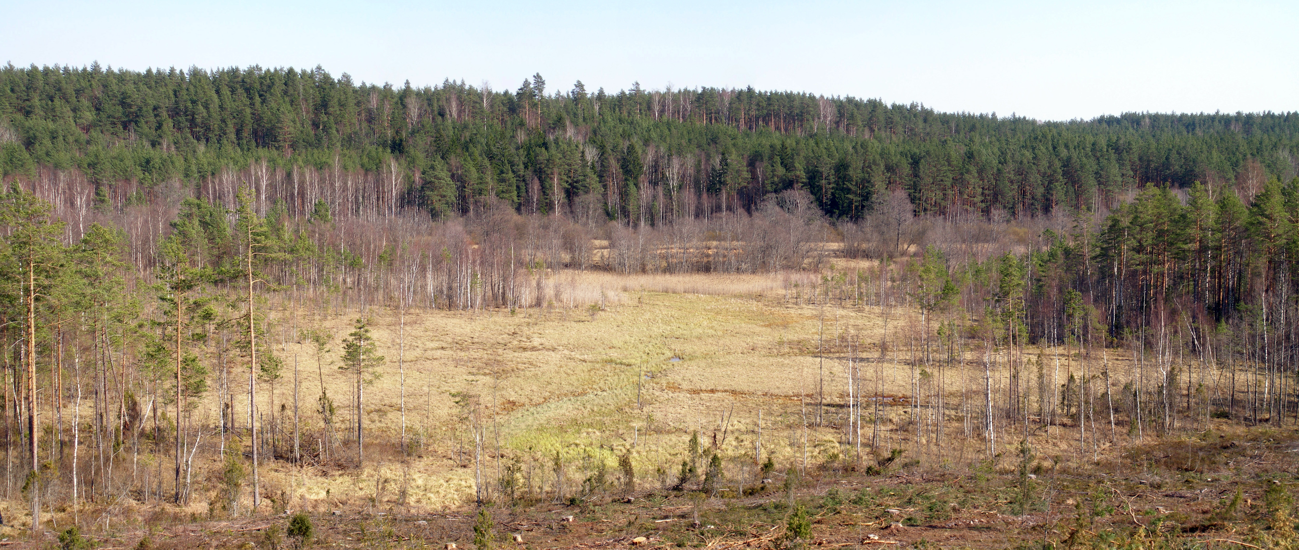 Valley of the Piusa River in Setomaa, Estonia. Though the river itself is barely visible, its course is marked by a line of deciduous trees.